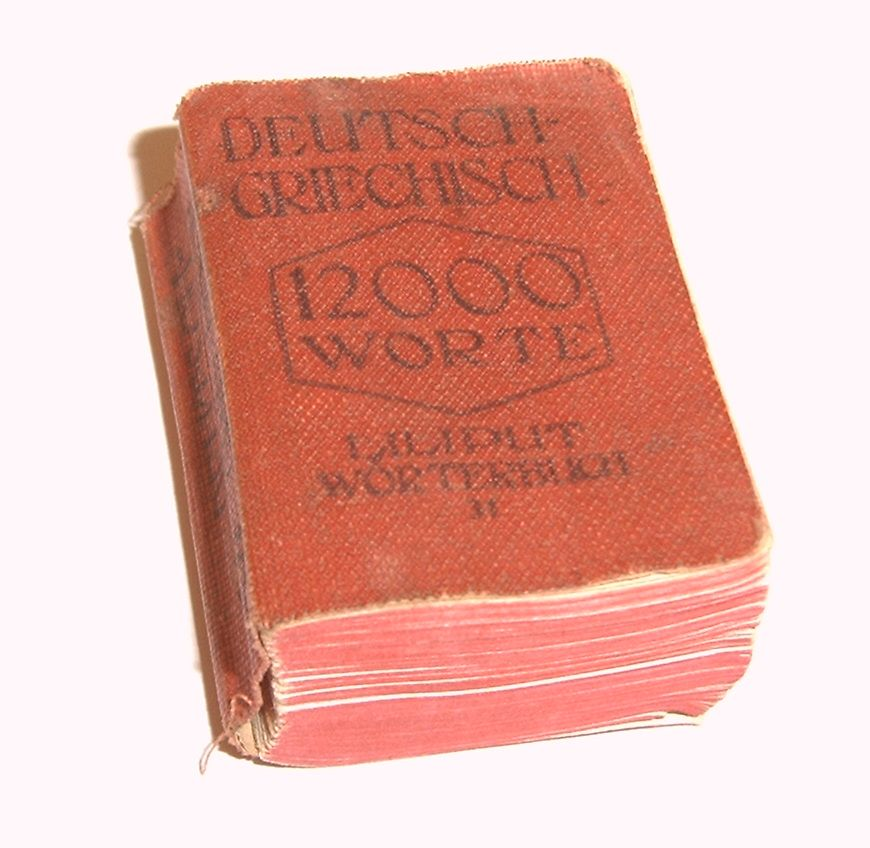 A small dictionary (German – Ancient Greek), edited by Dr. W. Ganzenmüller, published at Schmidt & Günther, Leipzig. 48 x 35 x 18 mm.